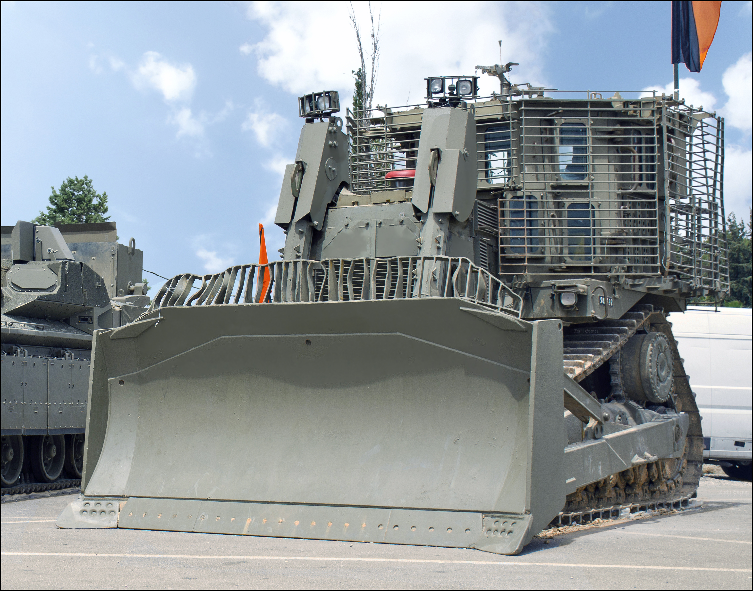 Israel Defense Forces - armored vehicles of the Combat Engineering Corps 2017: IDF Caterpillar D9R armored bulldozer